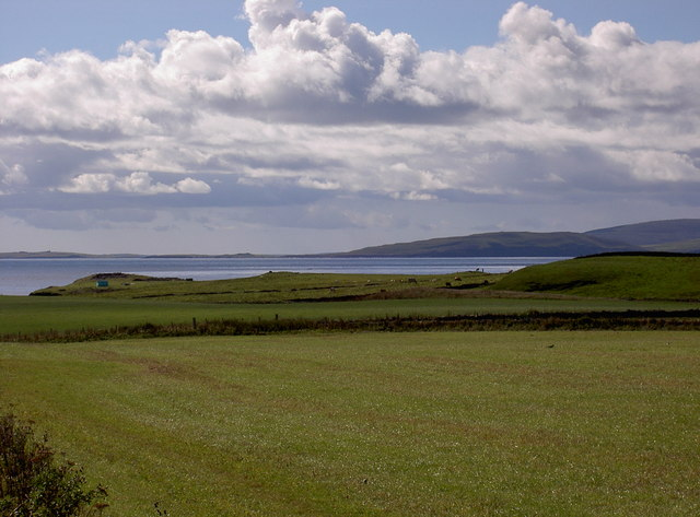 Knowe o Skea, near Langskaill View over farmland at Langskaill towards Knowe o Skea (the 'bump' with green tent on it). Island of Rousay in background to right.